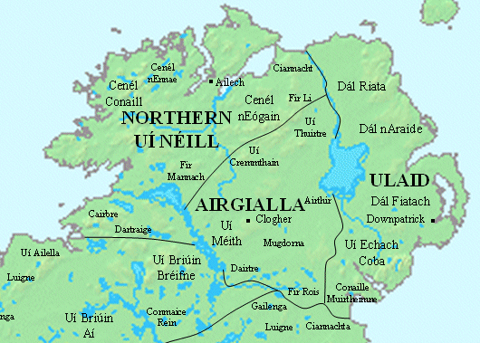 The political layout of Ulster in the 10-11th century